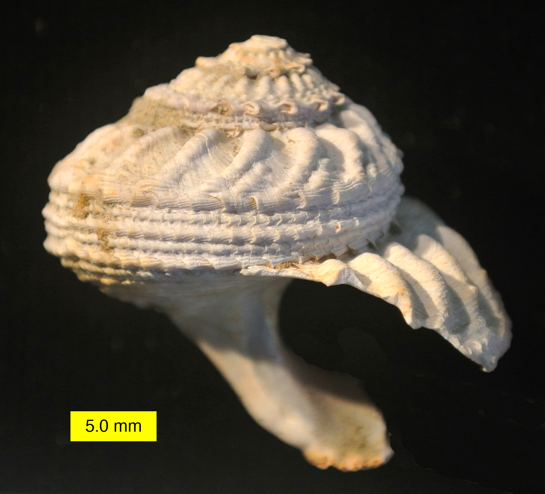 Bolma rugosa (Linnaeus, 1767) (synonym: Astraea rugosa ) with signs of crab predation; Pliocene of Cyprus.